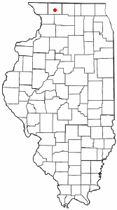 Category:Illinois city locator maps